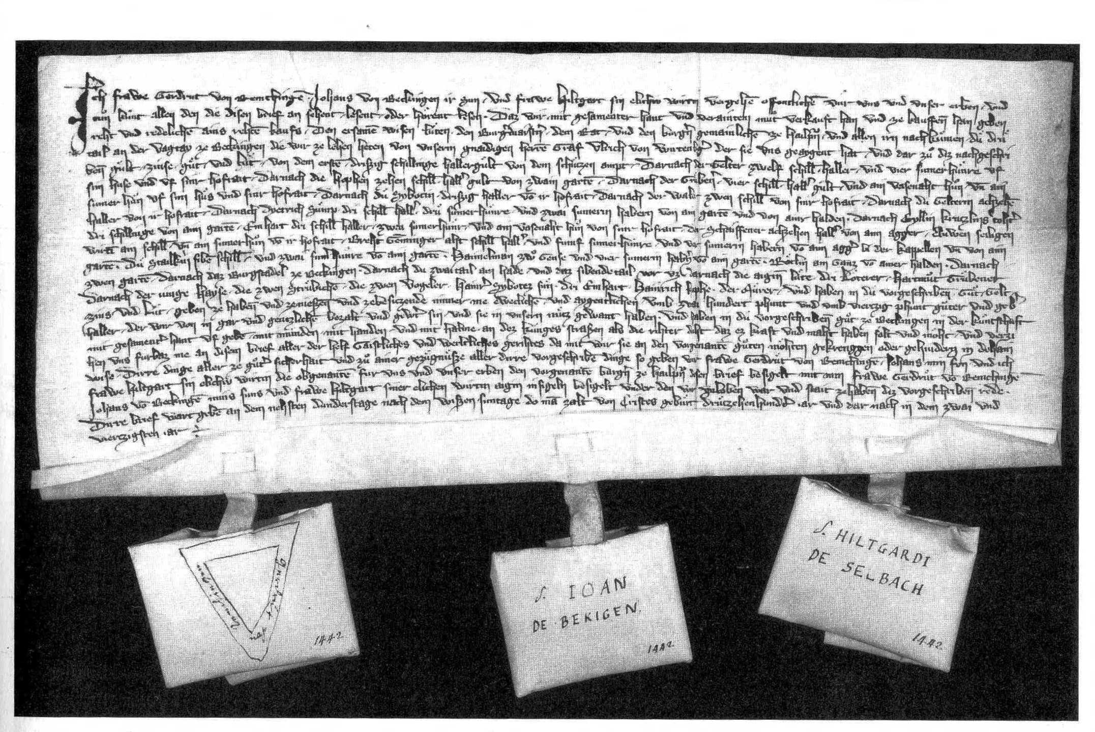 1342 Verkaufsurkunde mit Siegel von Gertrud von Remchingen, der Witwe des Herrn von Böckingen und ihrem Sohn Johann von Böckingen und ihrer Schwiegertochter Hiltgard von Selbach